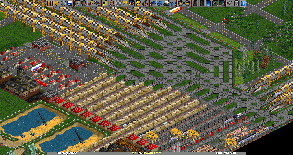 OpenTTD 1 5. MegaStation with the NewGRF FIRS.